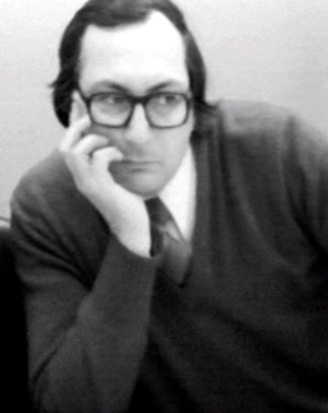 Maurice Godelier at SSRC Seminar on Models of Social Change, 1977